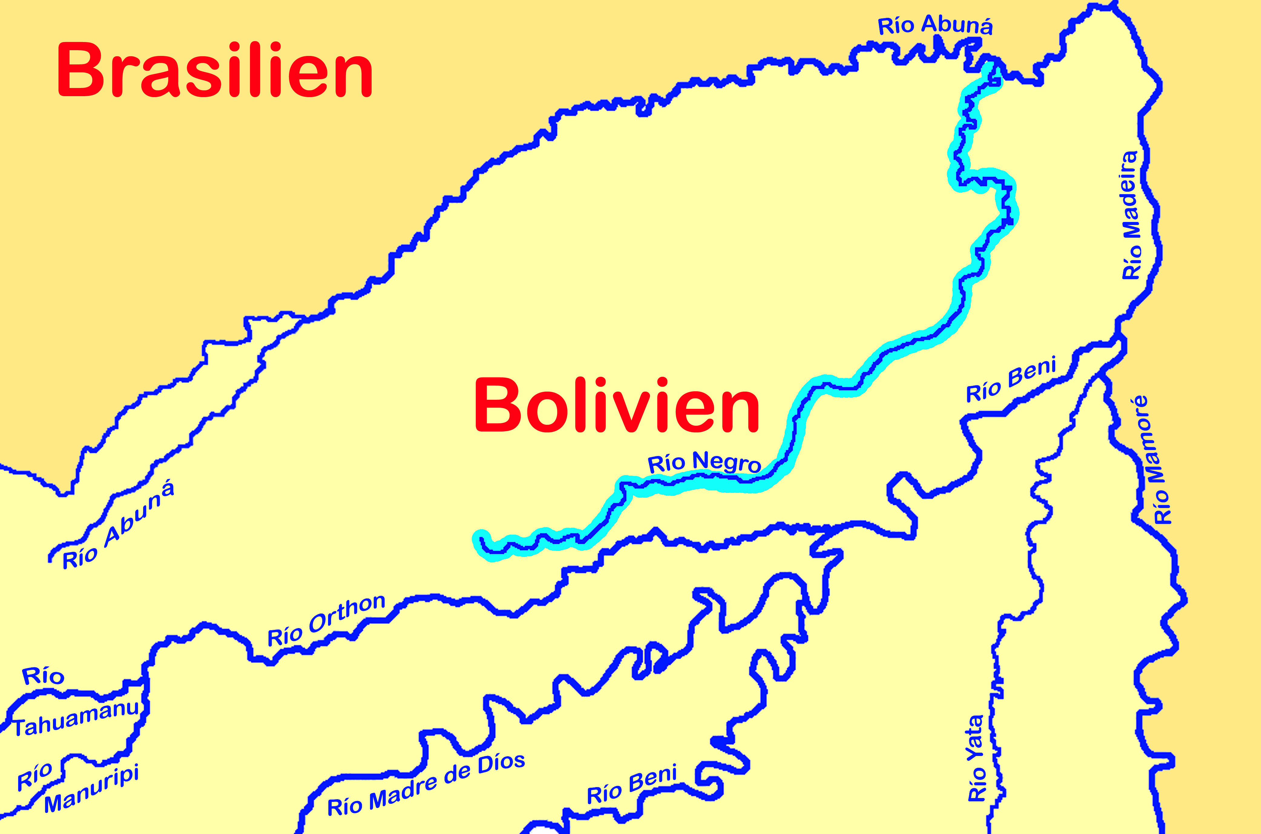 Map of Río Negro in Pando Department, Bolivia